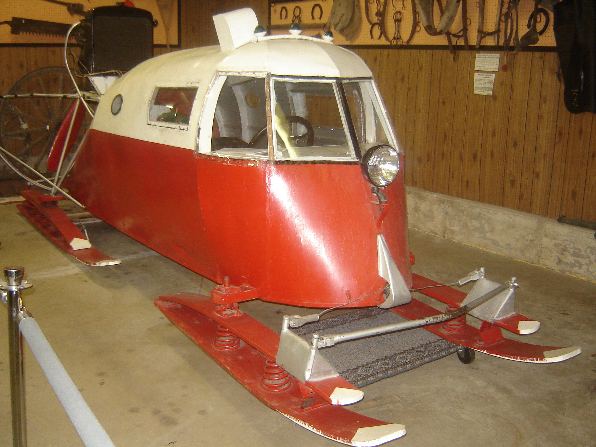 Barr Colony Heritage Cultural Centre Snowmobile